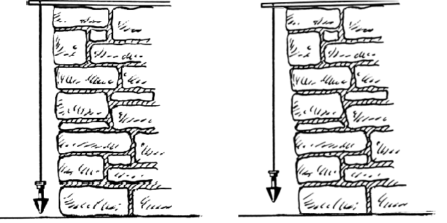 created from file File:Plumb (PSF).png , showing if wall is straight or not Kiswahili: kutokana na File:Plumb (PSF).png nimeongeza mfano wa ukuta usio wima.